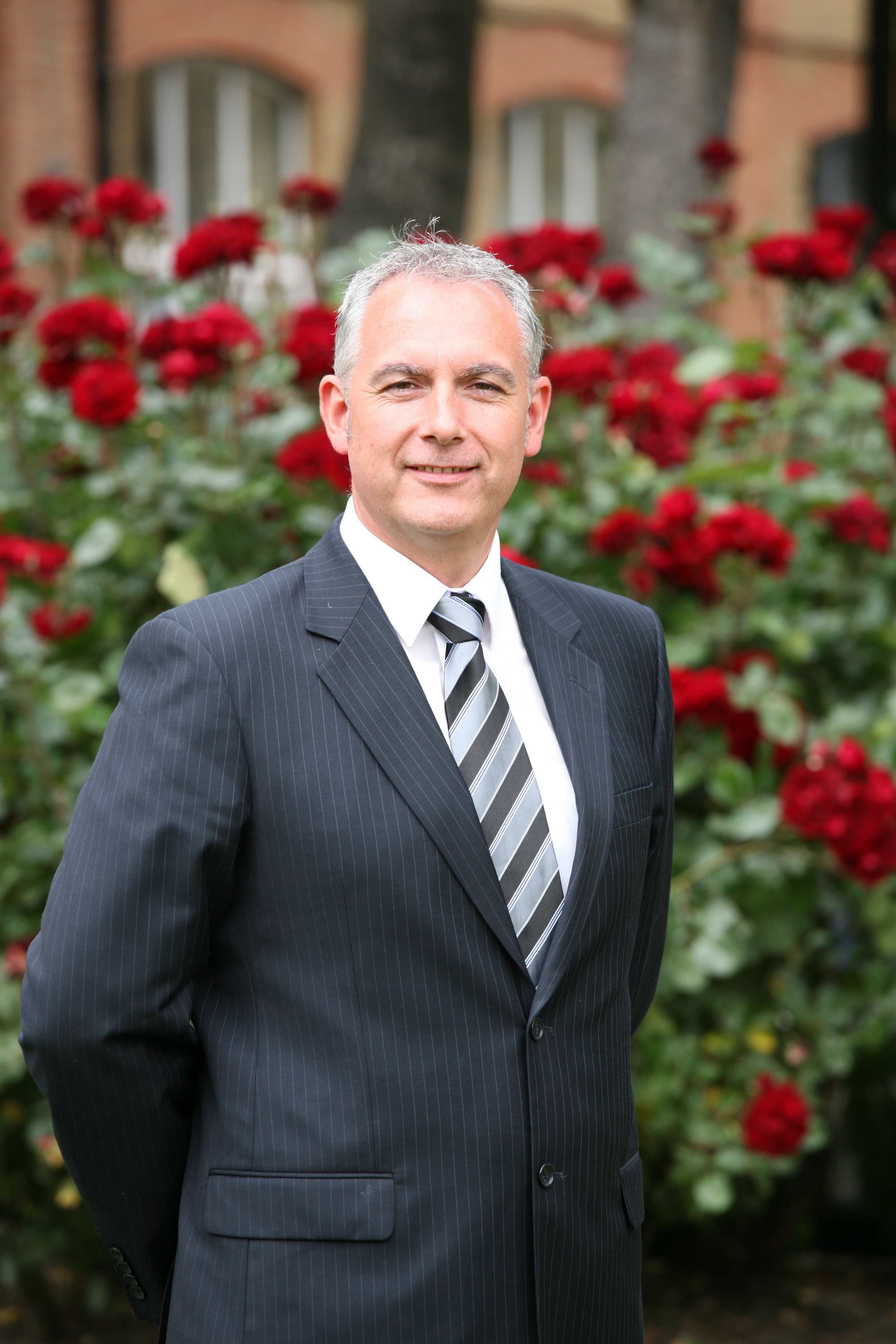 Photo of the current Headteacher of St Bonaventure's School